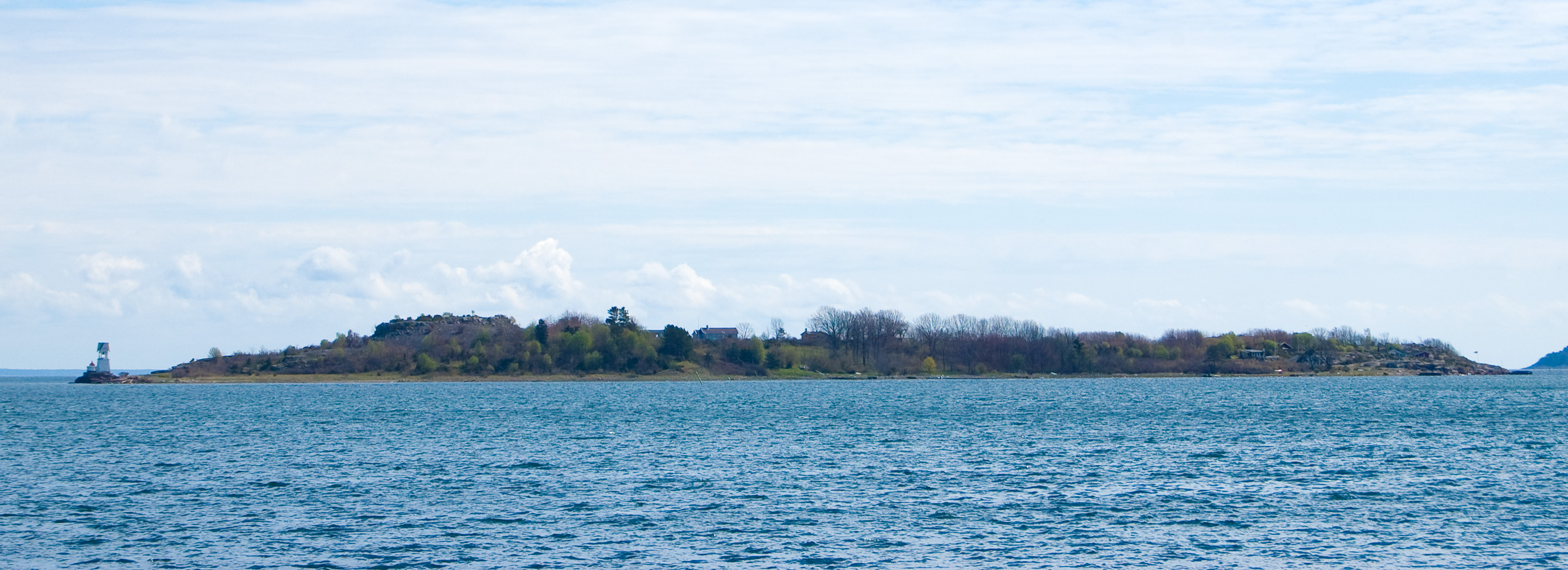 Torgersøya, an island in Tønsberg, Vestfold, Norway